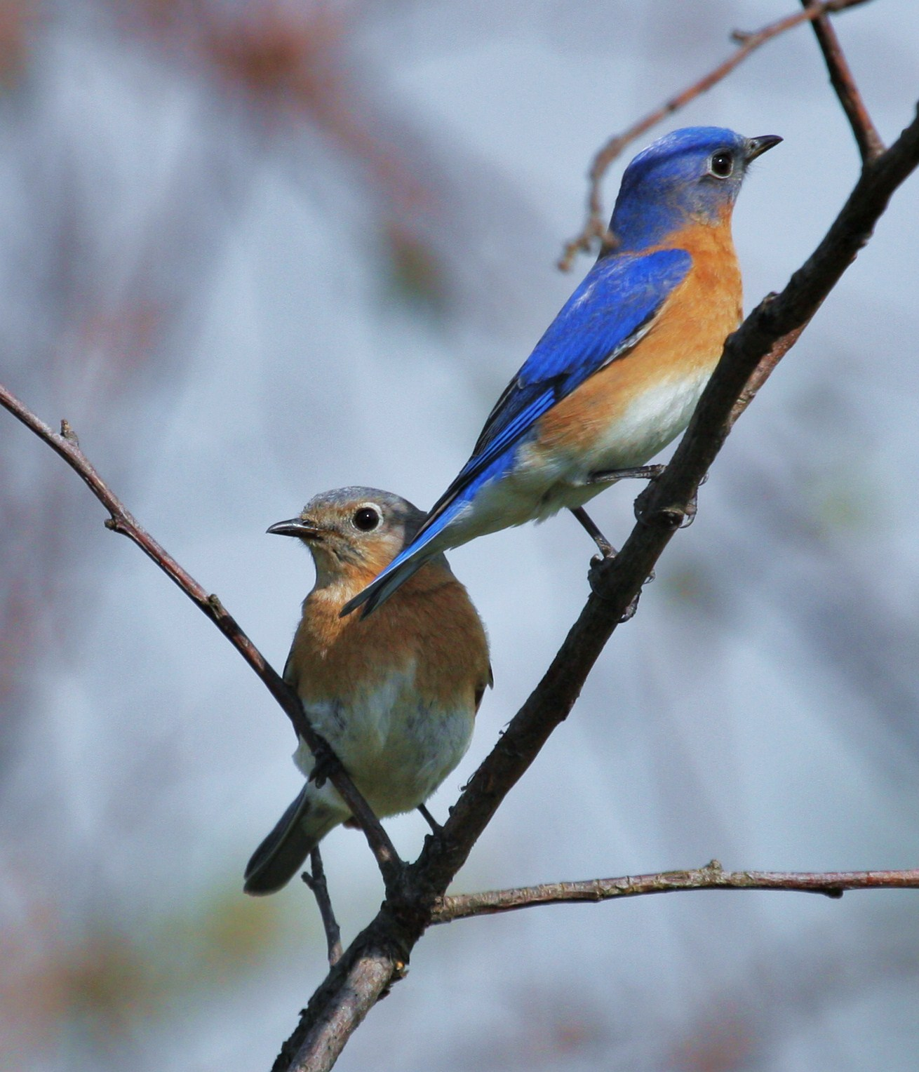 A pair of Eastern Bluebirds in Michigan, USA.